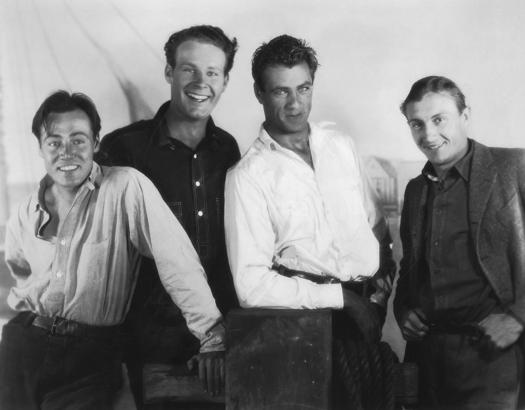 Left to right: Leslie Fenton, Lane Chandler, Gary Cooper, and Rowland V. Lee (director) on the set of the American romantic drama film The First Kiss - publicity still